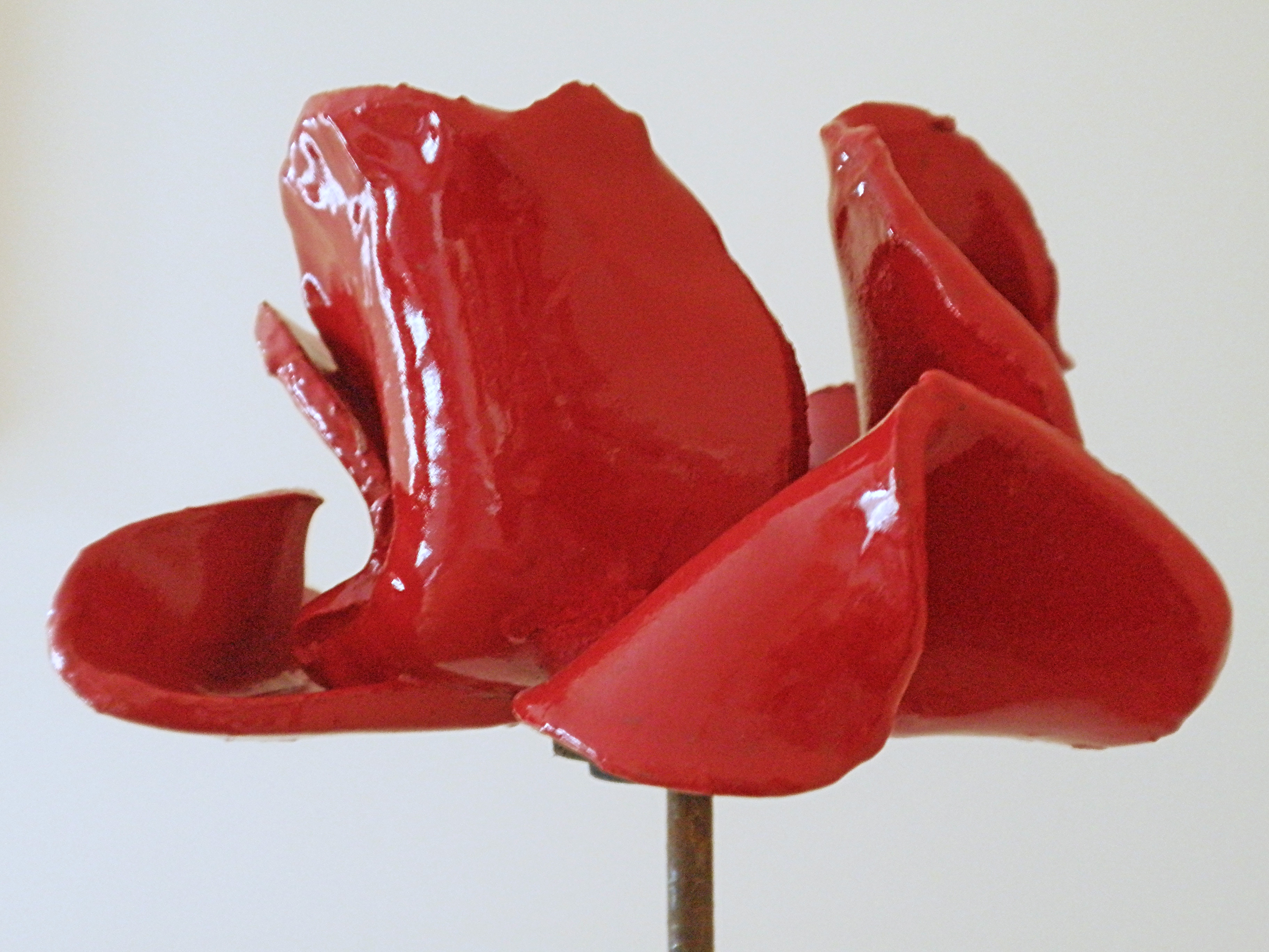 Perfect